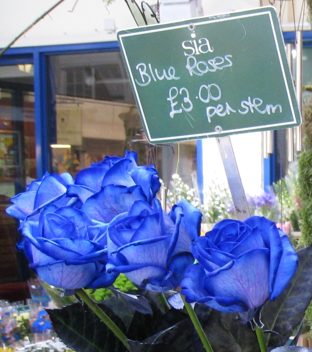 Blue roses on sale at a florist's in Oxford Covered Market